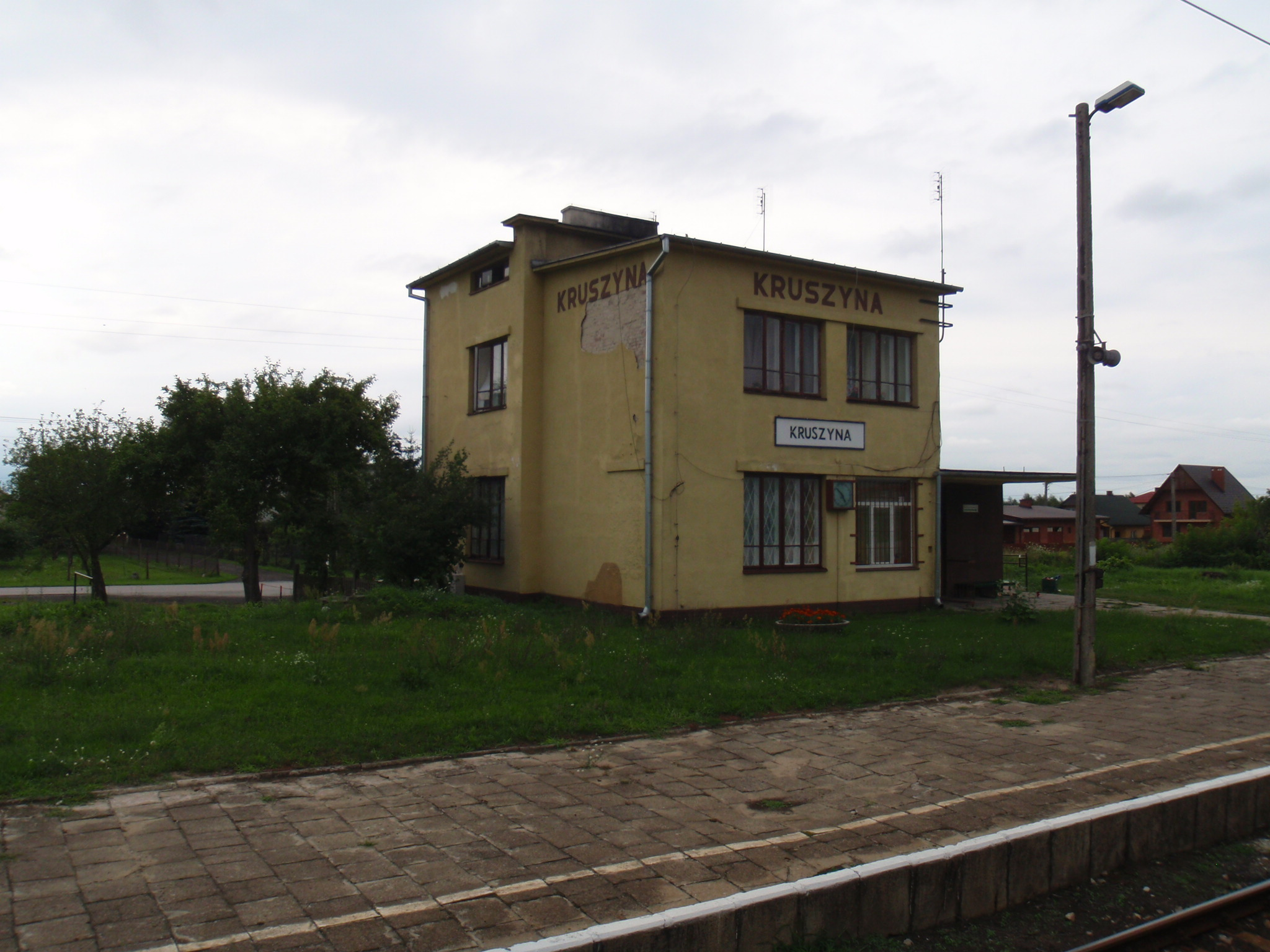 Station in Kruszyna